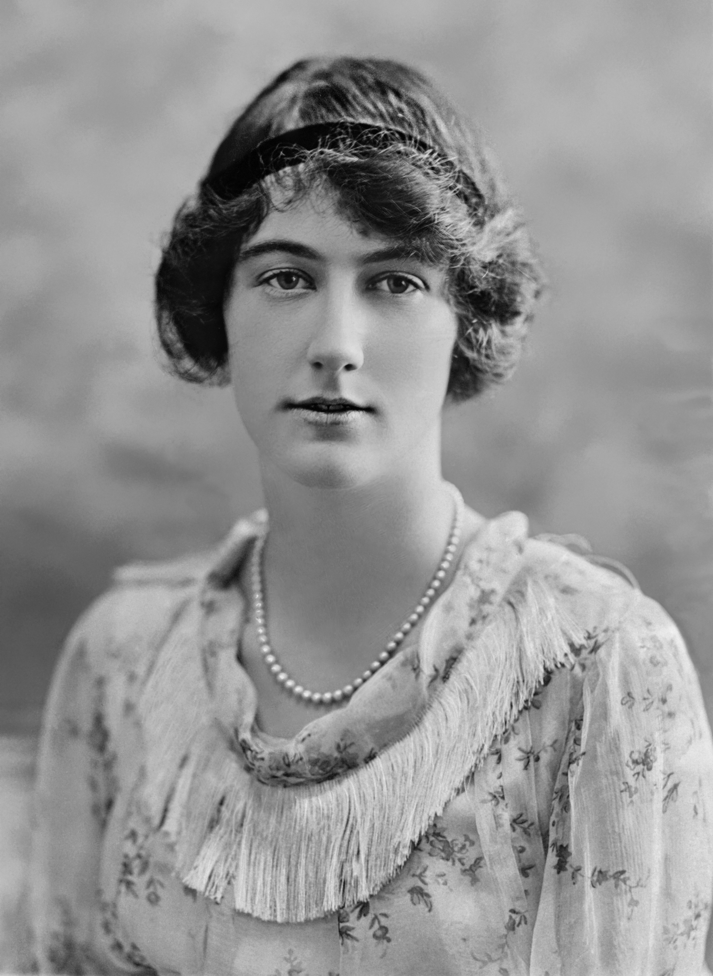 Portrait of Lady Dorothy Macmillan (1900–1966)